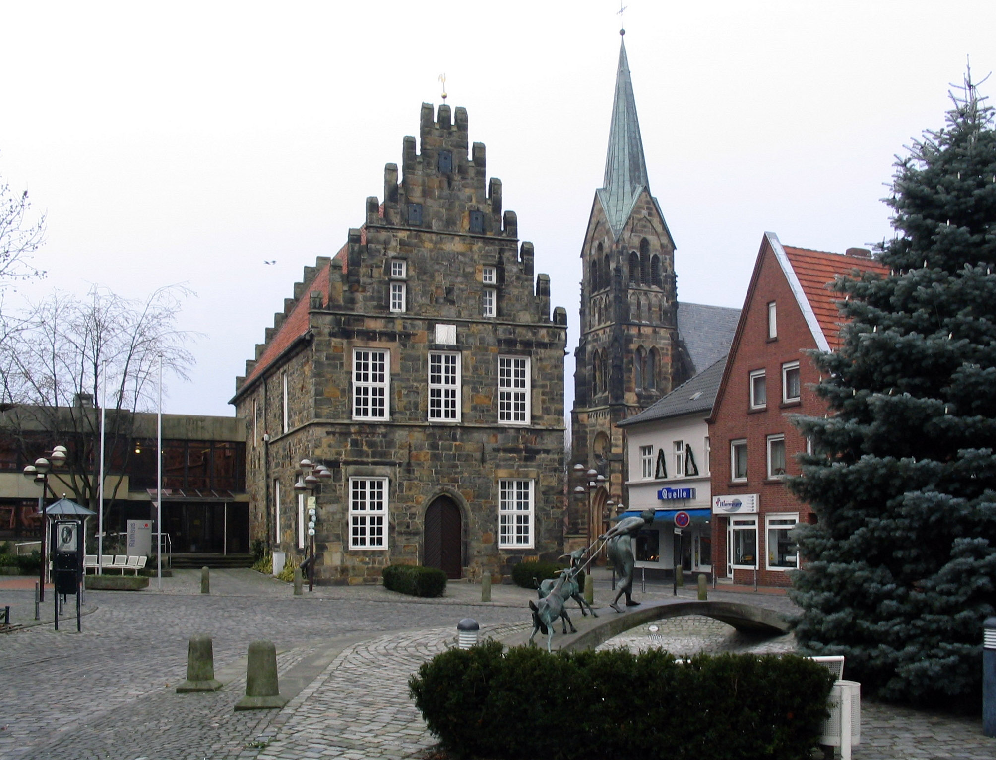 Marketplace of Schüttorf with font, city hall and catholic church